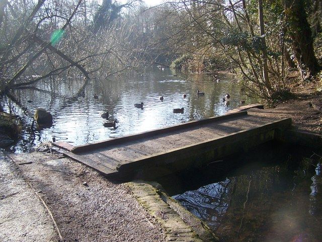 Footbridge in Manor Park Country Park Stream from West Malling widens out to make a lake. The bridge crossing it, leads from car park footpath in park to St.Leonard's Street.